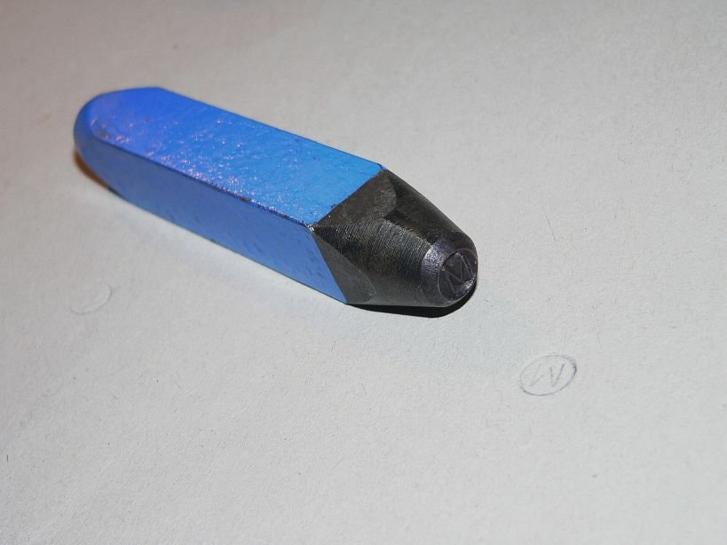 Steel punch für Bookbindery